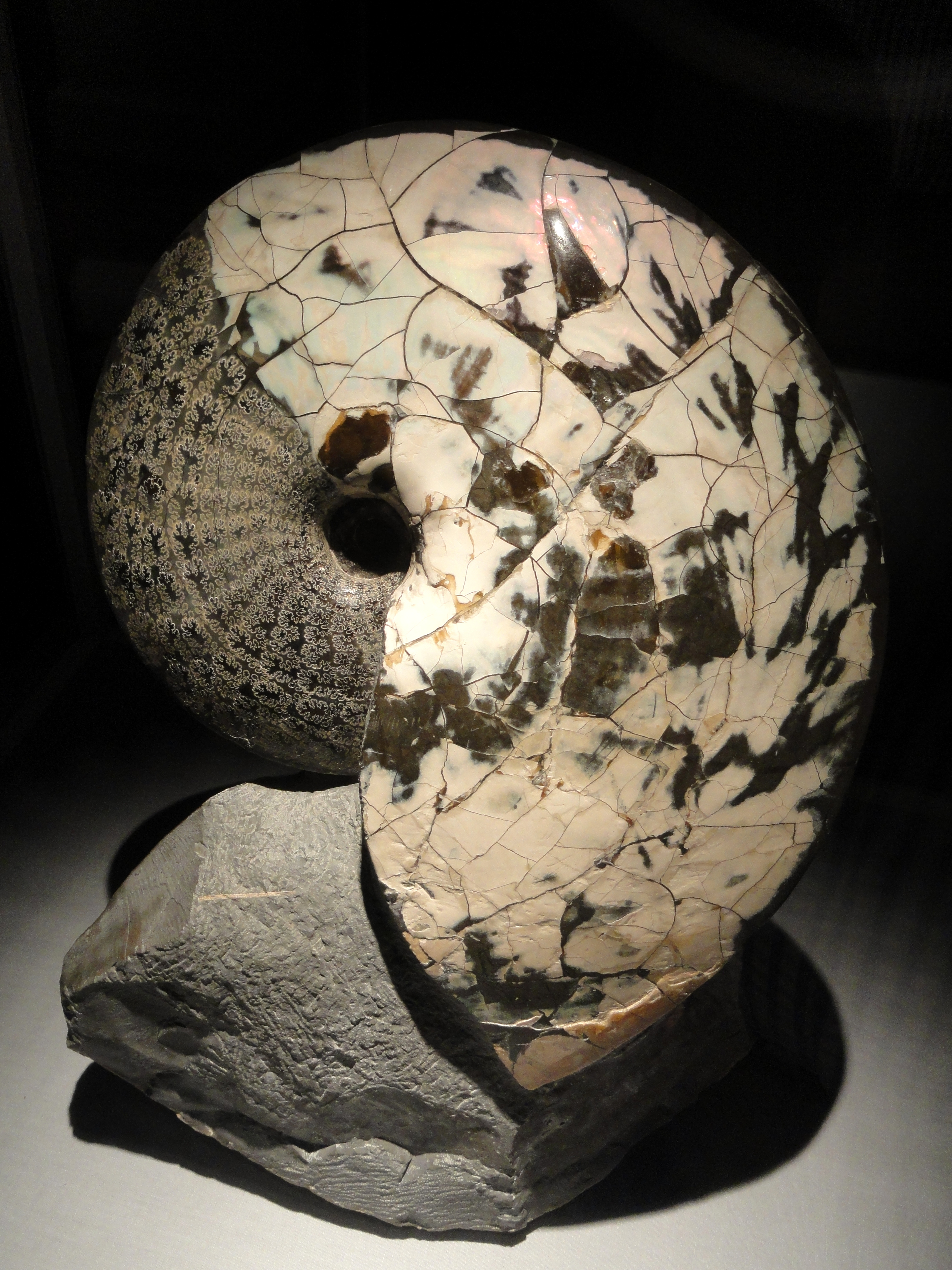 Exhibit in the Houston Museum of Natural Science, Houston, Texas, USA.